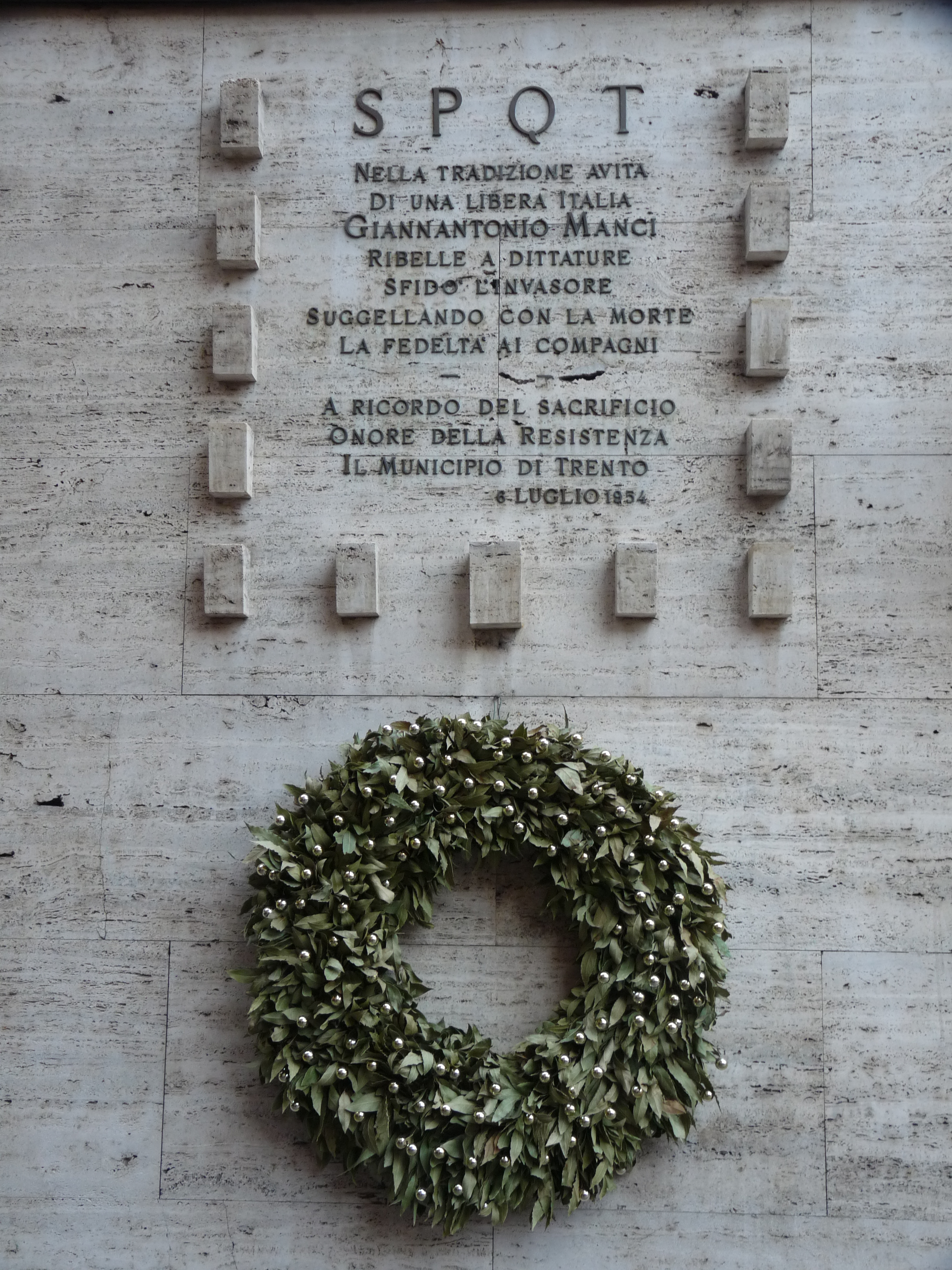 Trento (Italy): commemorative plaque of Giannantonio Manci (1901-1944) in piazza Cesare Battisti